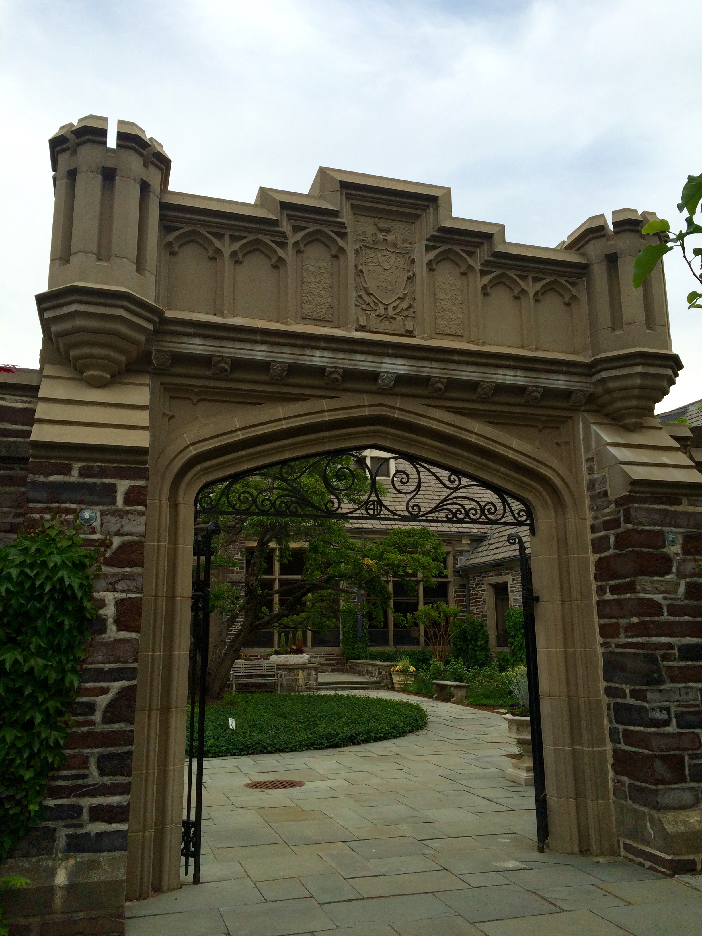 The home of the Princeton University Press.